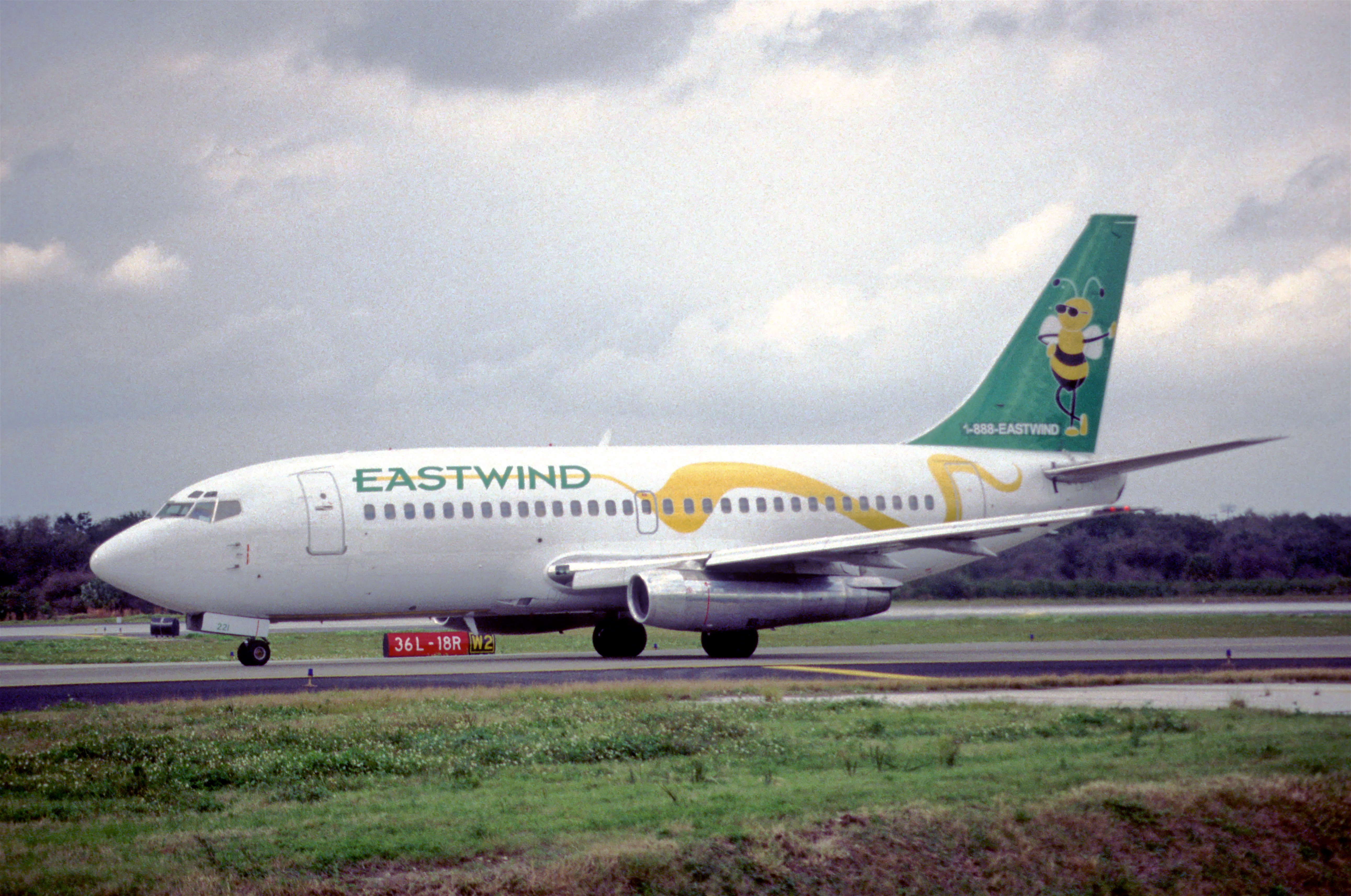 This Boeing 737-2H5 took its first flight on September 23, 1970... 7/10/1971 Mey-Air LN-MTD 07/03/1974 Boeing LN-MTD 15/05/1974 Piedmont Airlines N754N 05/08/1989 US Air N221US 12/07/1995 Eastwind Airlines N221US